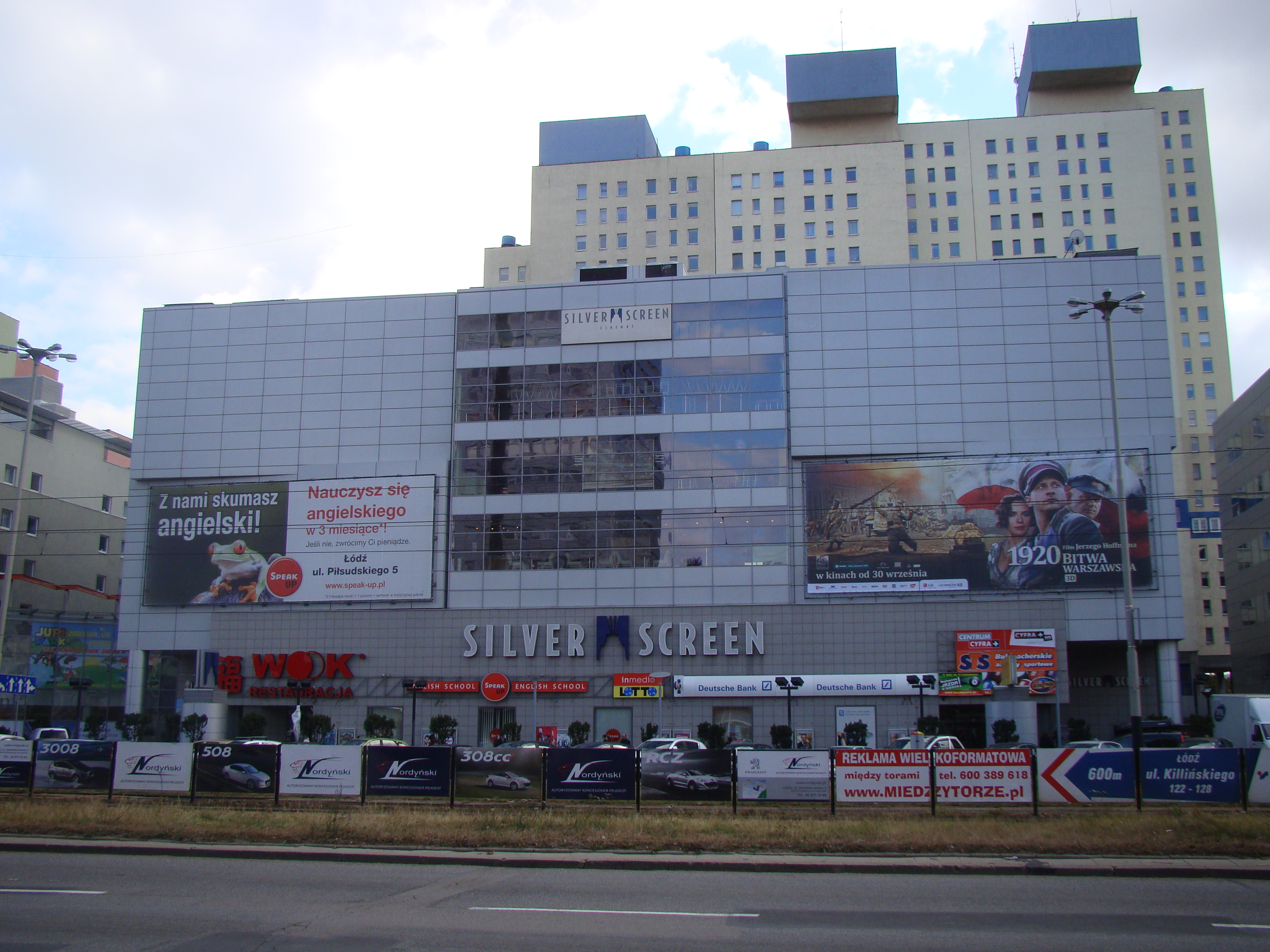 Cinema Silver Screen in Łódź